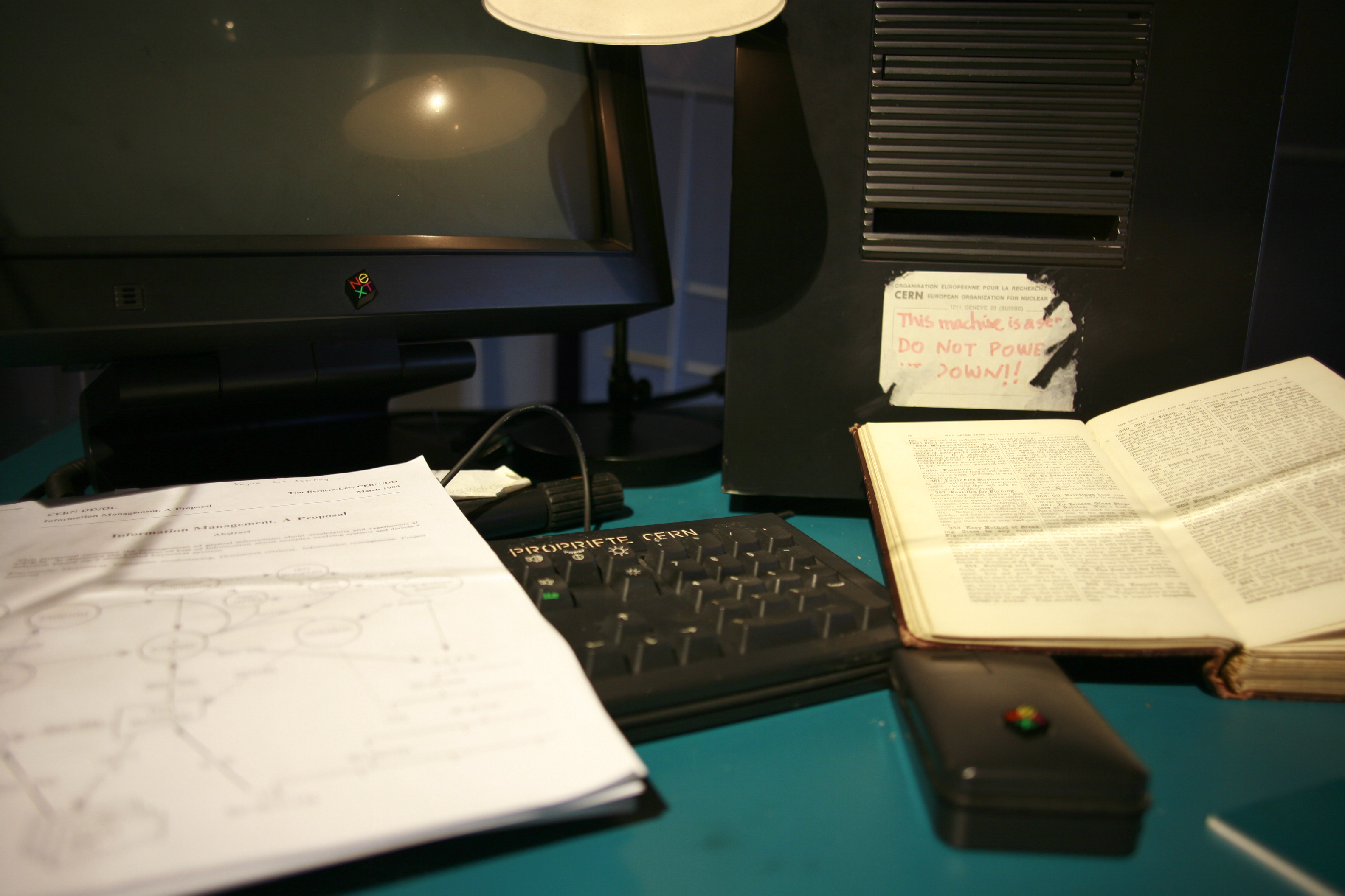 The computer that Tim Berners-Lee used to invent the World Wide Web at CERN. The book is probably "Enquire Within upon Everything", which TBL describes on page one of his book Weaving the Web as "a musty old book of Victorian advice I noticed as a child in my parents' house outside London".